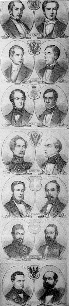 Treaty of Paris - the participants: France (France), Autriche (Austria, Habsburg Empire), Angleterre (England, United Kingdom), Russie (Russia, Russian Empire), Sardigne (Sardinia), Turquie (Turkey, Ottoman Empire), Prusse (Prussia)